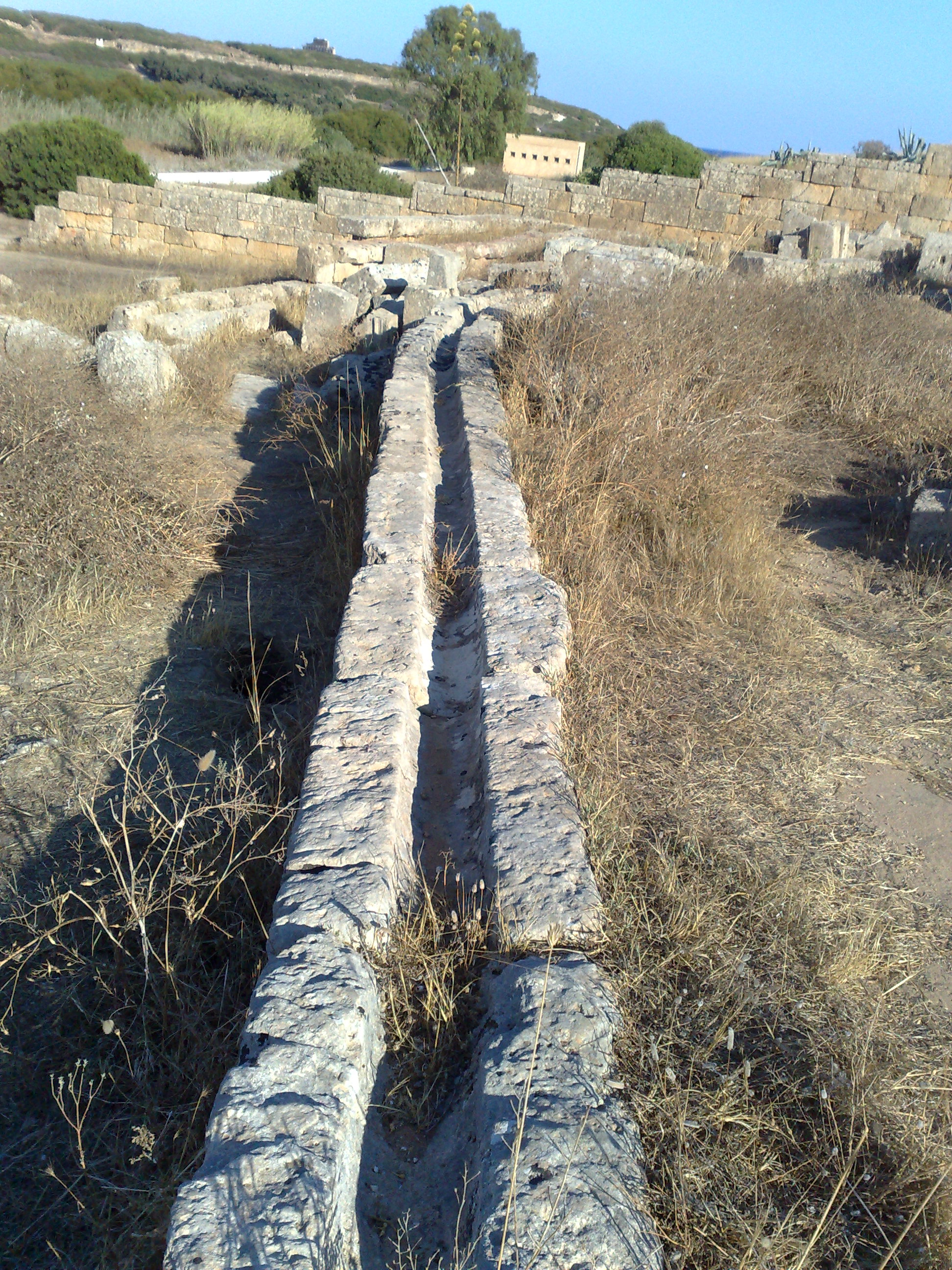 Selinunte Trapani: Sanctuary of Demeter Malophoros